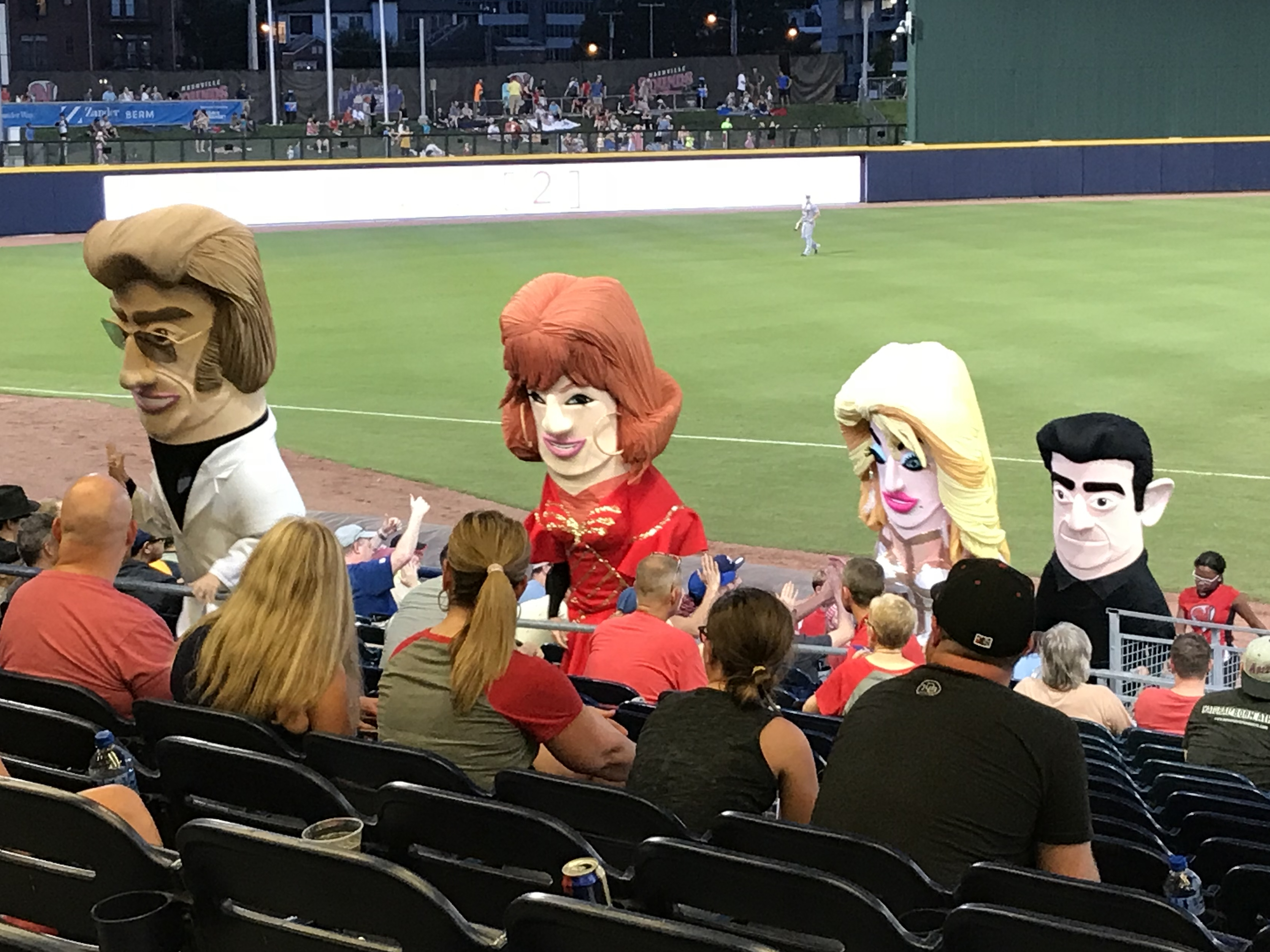 Caricature mascots of country musicians George Jones, Reba McEntire, Dolly Parton, andJohnny Cash, and after racing around First Tennessee Park during the fifth inning of a Nashville Sounds game on Augusts 19, 2018